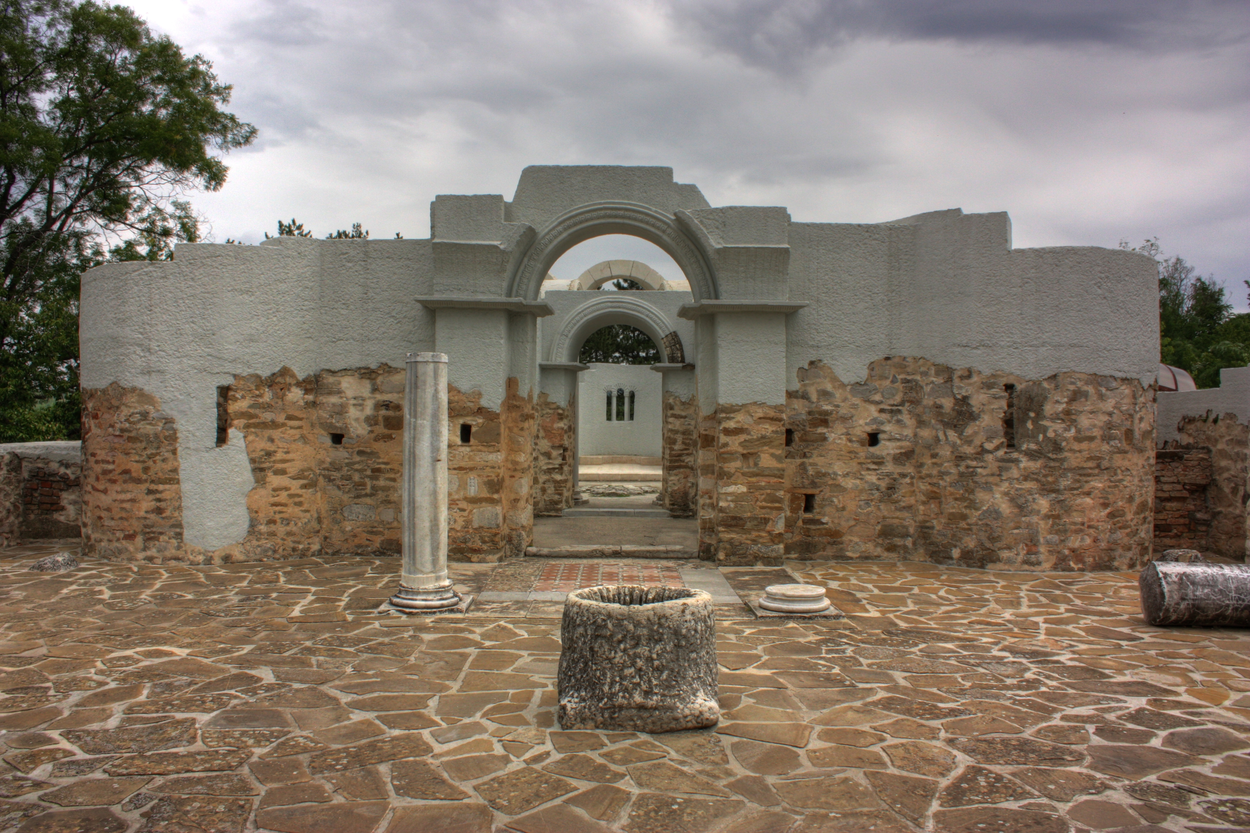 The Golden Church at the ancient Bulgarian capital, Preslav (partial reconstruction)... Preslav, the capital of the First Bulgarian Empire...